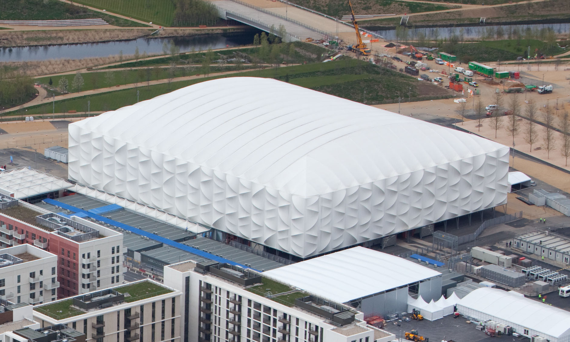 Final construction of Olympic Park, London — (April 2012). Aerial view showing the Basketball Arena (white) and Paralympic Village. Picture taken on 16 April 2012.